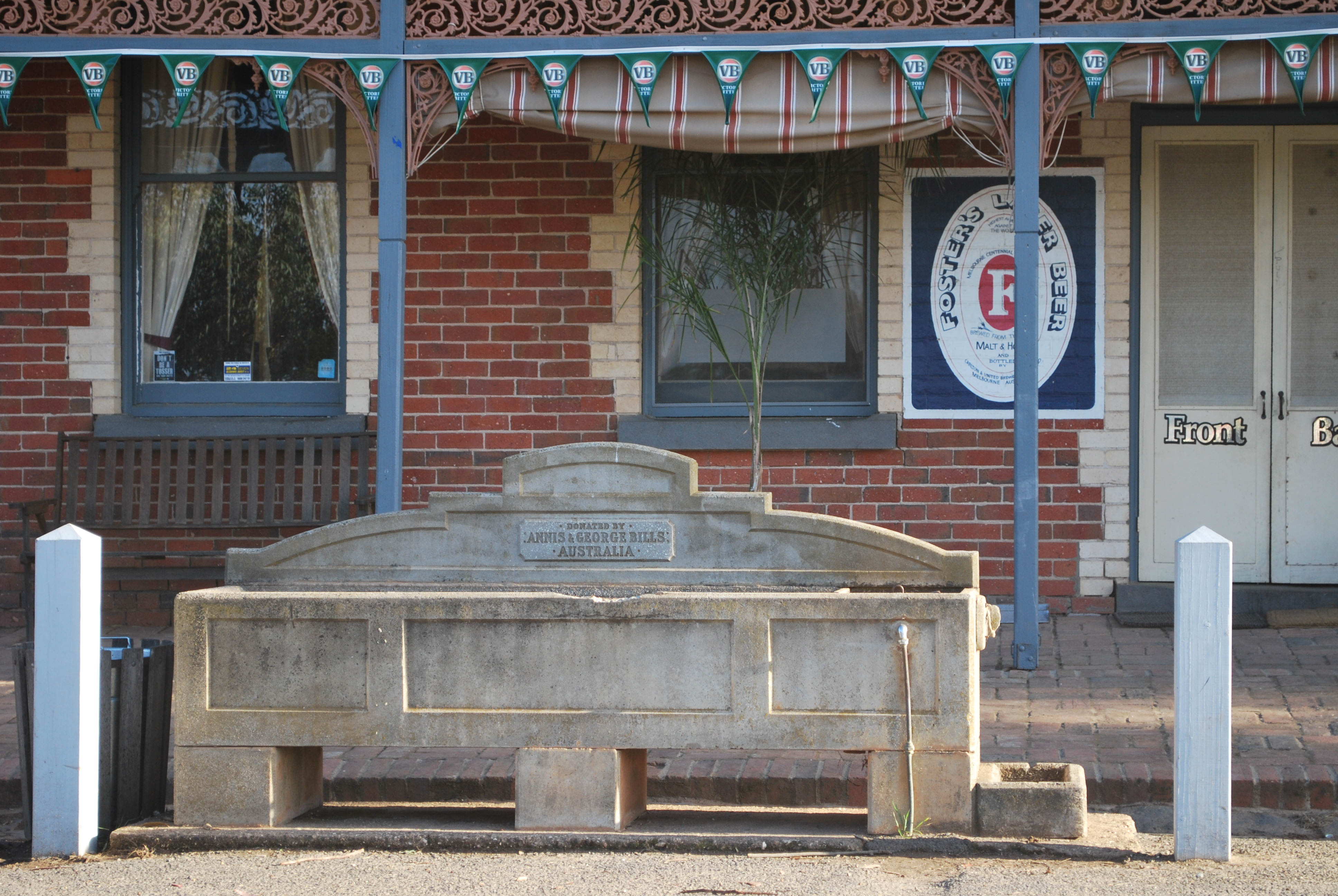 Bills horse trough at Sebastian, Victoria, outside the Little Sebastian Hotel